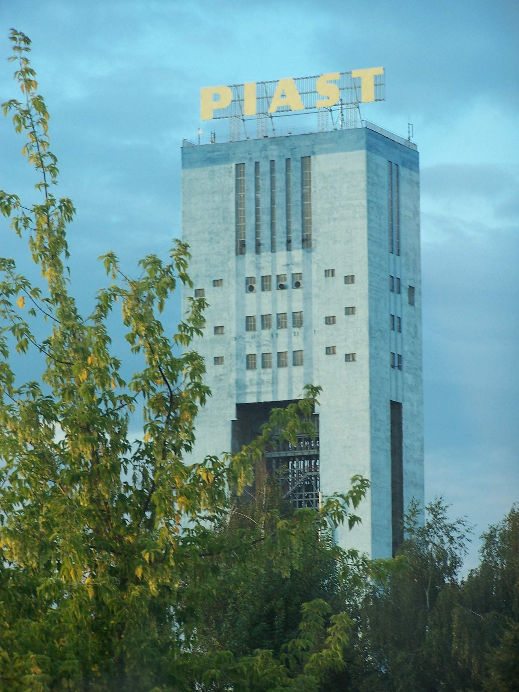 Photo by Piotrus. Tower of mine "Piast" in Bieruń.